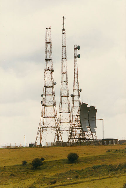 Swingate military telecommunication station. The three steel towers were originally 350 ft tall but are now truncated. They supported the transmitting dipoles of the Chain Home RDF system . At time of photographing the towers supported cross-channel microwave links. The large black dishes communicated by tropospheric scatter. Although often described as part of the NATO Ace High network, it seems more likely that these were an RAF link to Lammersdorf in Germany (the most southerly Ace High station in Britain being 306123).